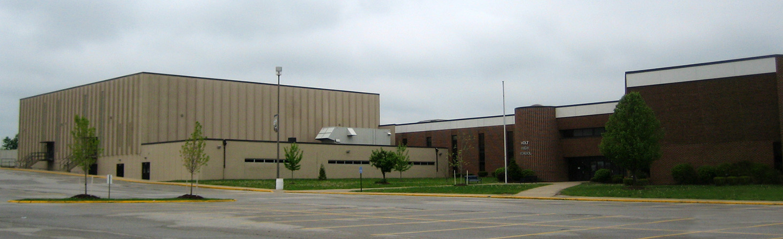 Wentzville Holt High School